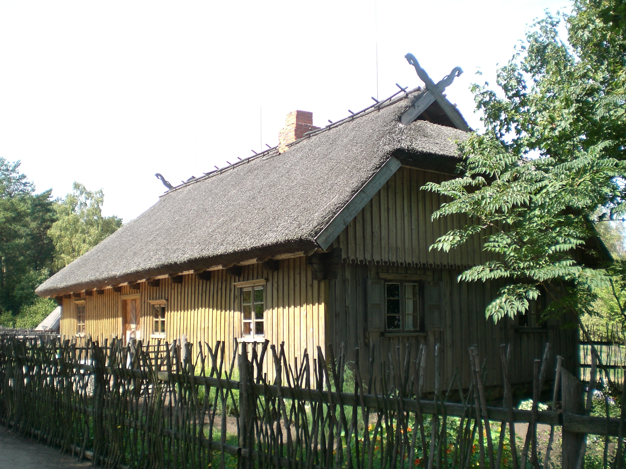 Dwelling-house of the ethnographic fisherman's farmstead in the National Sea Museum of Lithuania in Klaipėda-Kopgalis, Lithuania